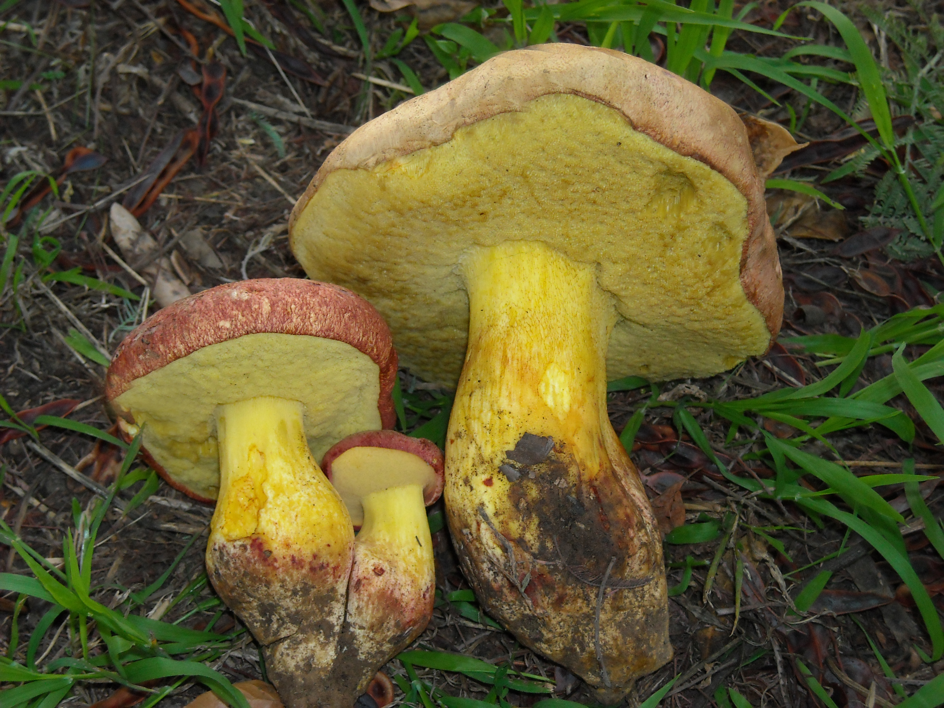 Boletus regius sensu Thiers Location: China Camp State Park, Marin Co., California, USA Observation Notes: Thanks Dimitar, for commenting on these Mushrooms, I am drying the boletes, in one spot of the park, these pops,It’s a BIG park, I have collected them going back 9 years, … I put them in my Food Dehydrator, then in a glass jar., I have NOT eaten them..ken.. For more information about this, see the observation page at Mushroom Observer.